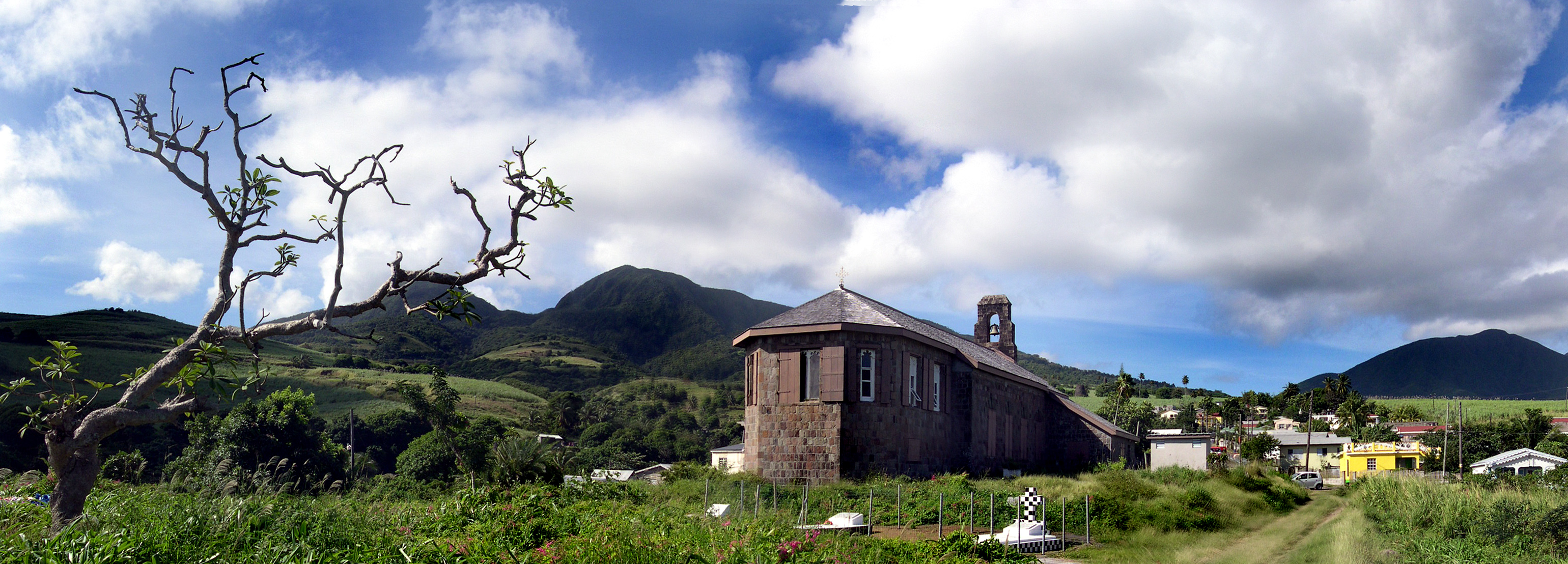 St Mary's church, Cayon, St Kitts, West Indies Photo by user DEC 2005